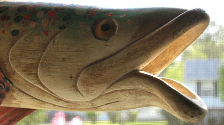 carved and painted basswood, weighted with lead